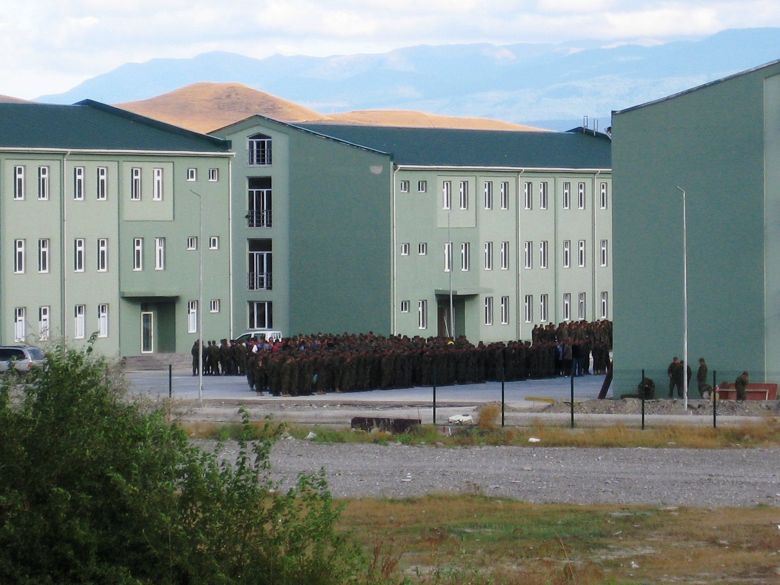 Russian agression in August resulted in the destruction of Gori military bases, only few building survived